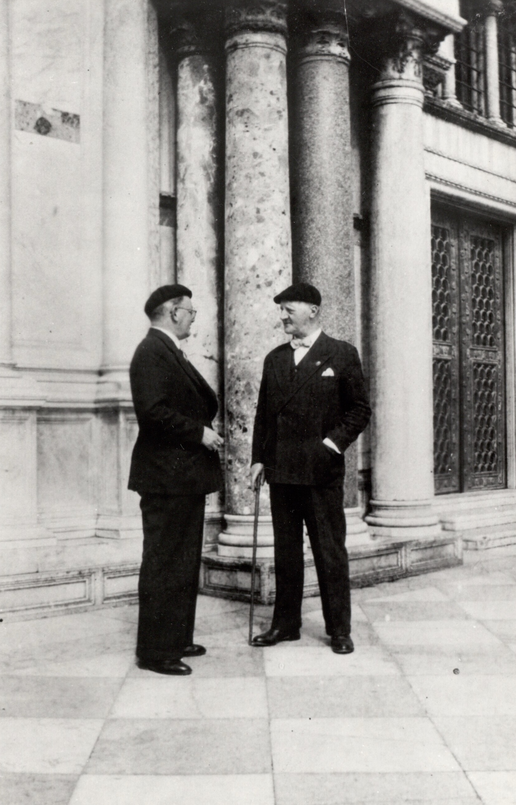 Danish writers Tom Kristensen and Kai Friis Møller